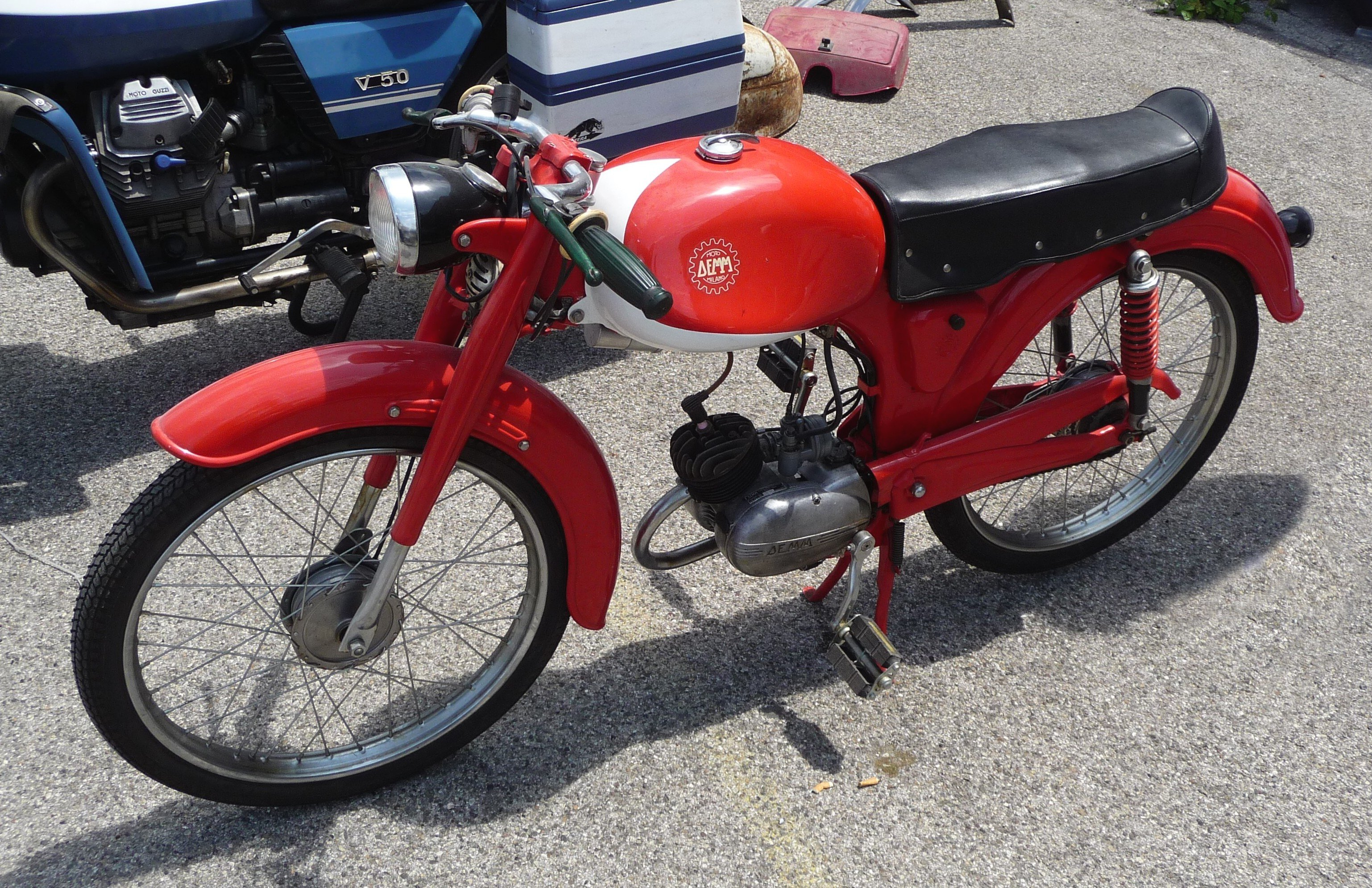 Motocycle Demm